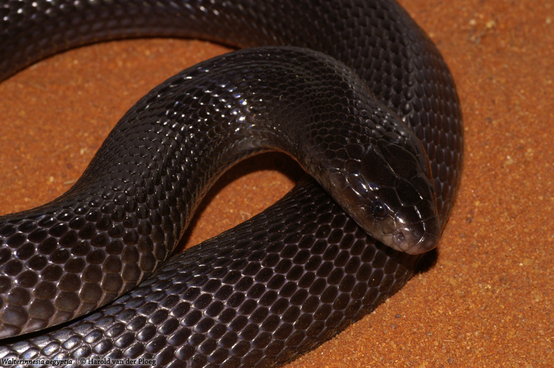 Desert cobra (Walterinnesia aegyptia)